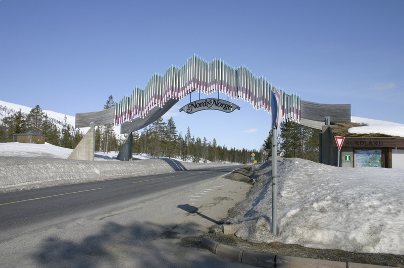 "The gateway to Northern Norway". E6 at the border of Nord-Trøndelag and Nordland.